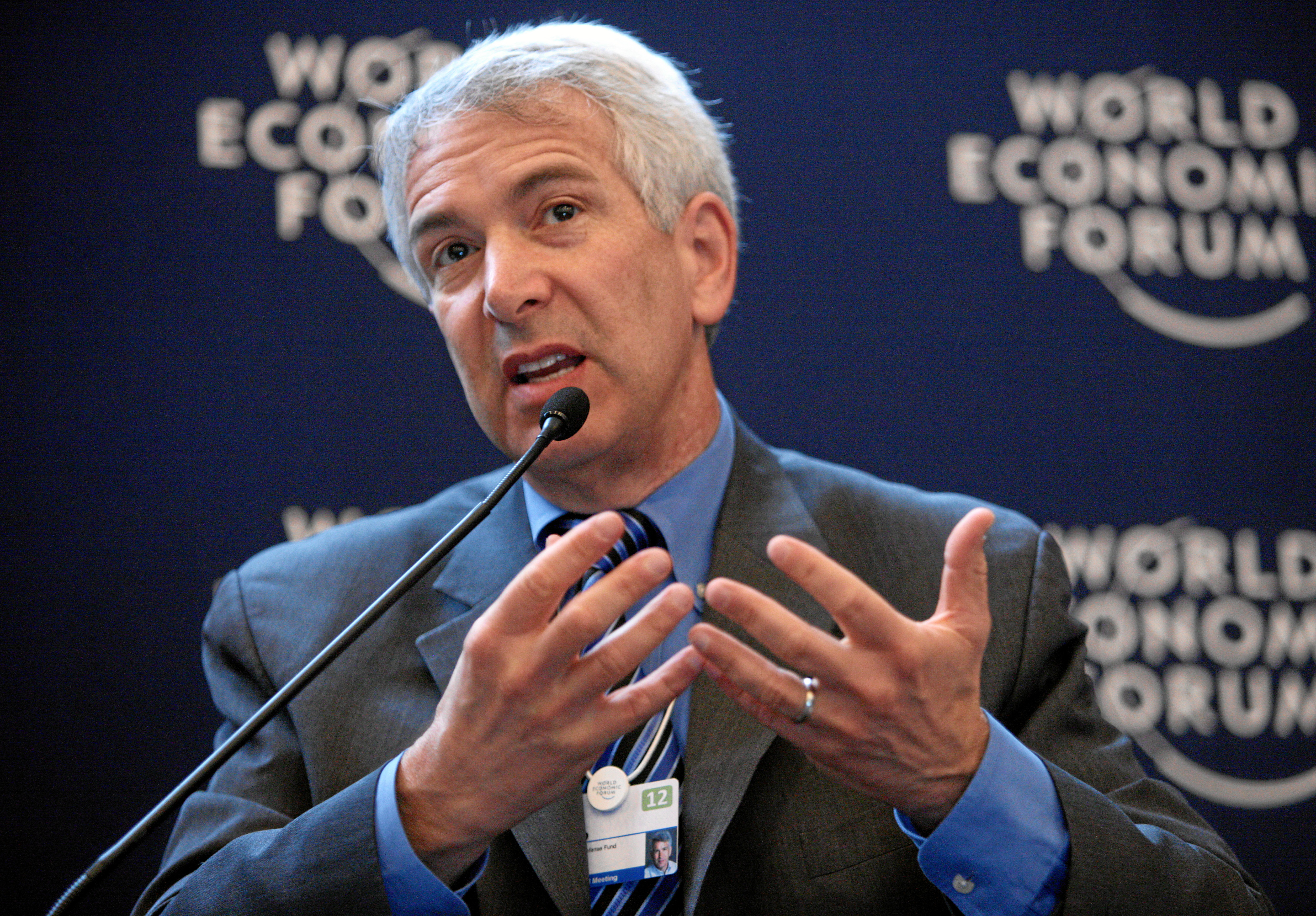 DAVOS/SWITZERLAND, 25JAN12 - Fred Krupp, President, Environmental Defense Fund, USA captured during the session 'The Global Energy Context' at the Annual Meeting 2012 of the World Economic Forum at the congress centre in Davos, Switzerland, January 25, 2012.. . Copyright by World Economic Forum. by Remy Steinegger